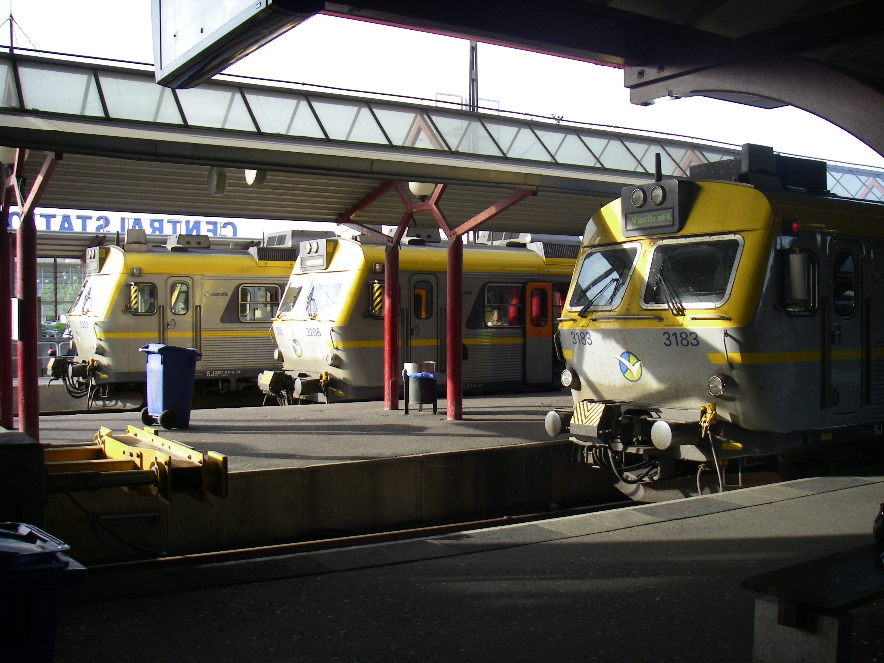 Three trains of type X-11 at the Central Station in Gothenburg